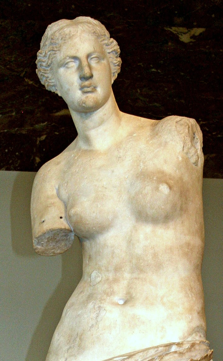 Venus di Milo or Aphrodite of Milos (the Greek goddess of love) is one of the most famous Greek sculptures. Estimated to be more than 2000 years old, this marble statue is 203 cms tall. The sculpture is believed to be the work of Alexandrios of Antioch and is on display at the Louvre, Paris.